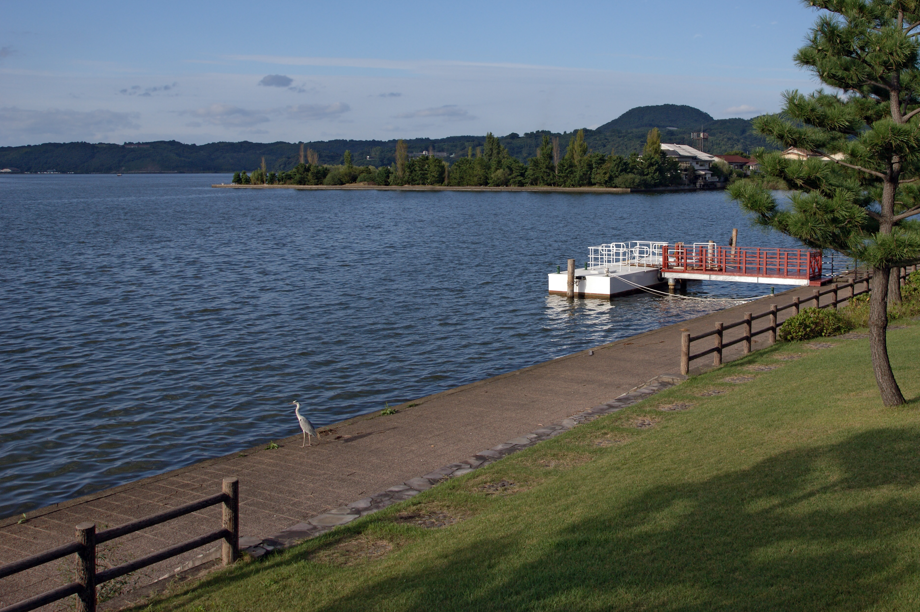 Lake Togo, Yurihama, Tottori prefecture, Japan